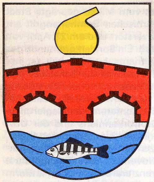 Former Coat of arms of Premnitz